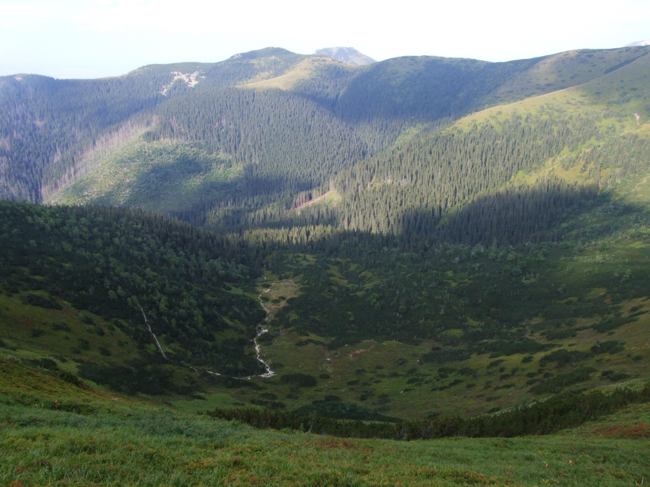 Łatana Dolina (West Tatra Mountains)